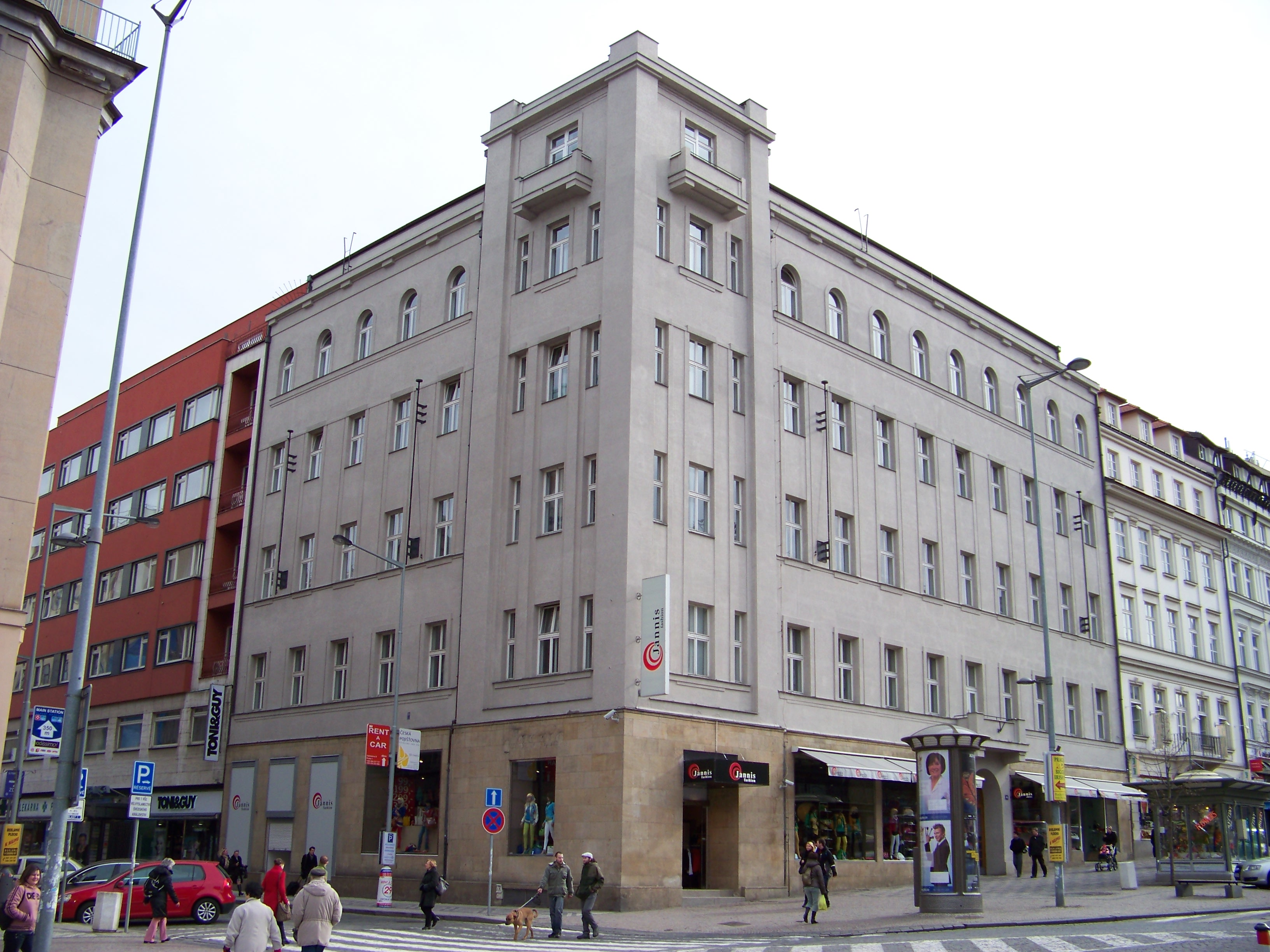 Prague-New Town, the Czech Republic. Wenceslas Square and Opletalova street. - OpenStreetMap(Info)